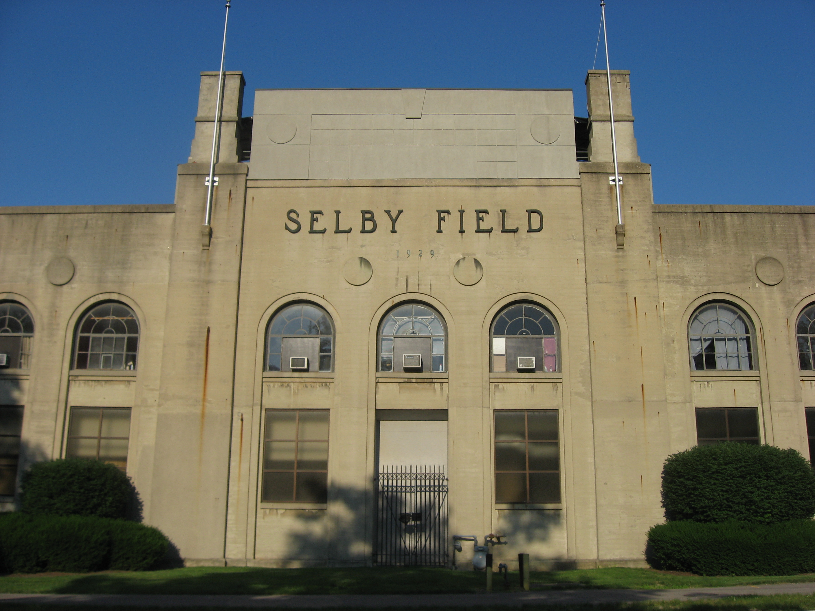 Entrance to Selby Field, located along Henry Street on the campus of Ohio Wesleyan University in Delaware, Ohio, United States. Built in 1929, it is listed on the National Register of Historic Places.